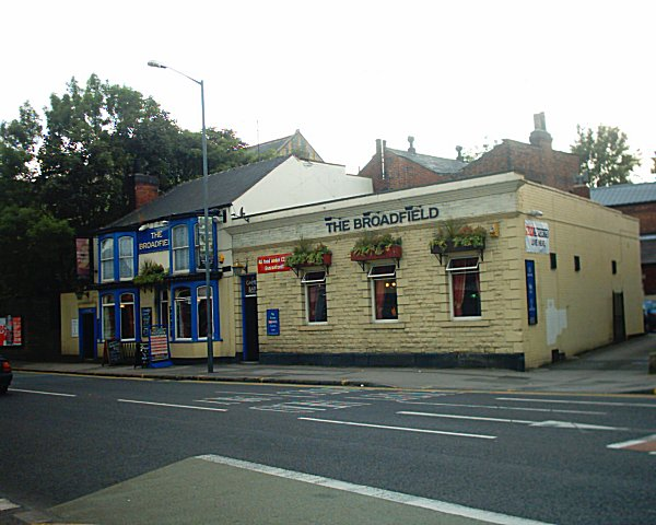 The Broadfield pub in Abbeydale, Sheffield.